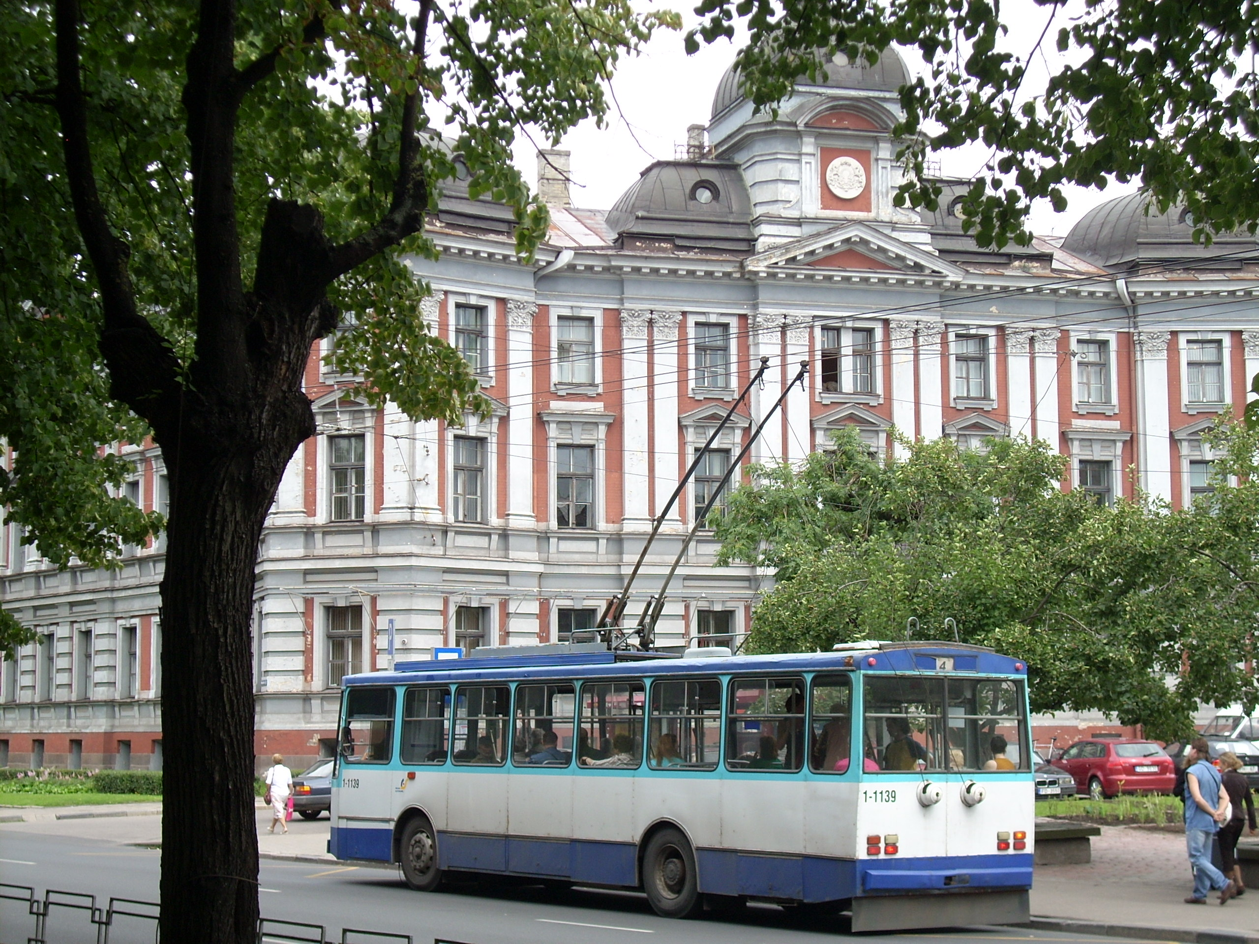 Škoda 14Tr trolleybus in Riga, Latvia